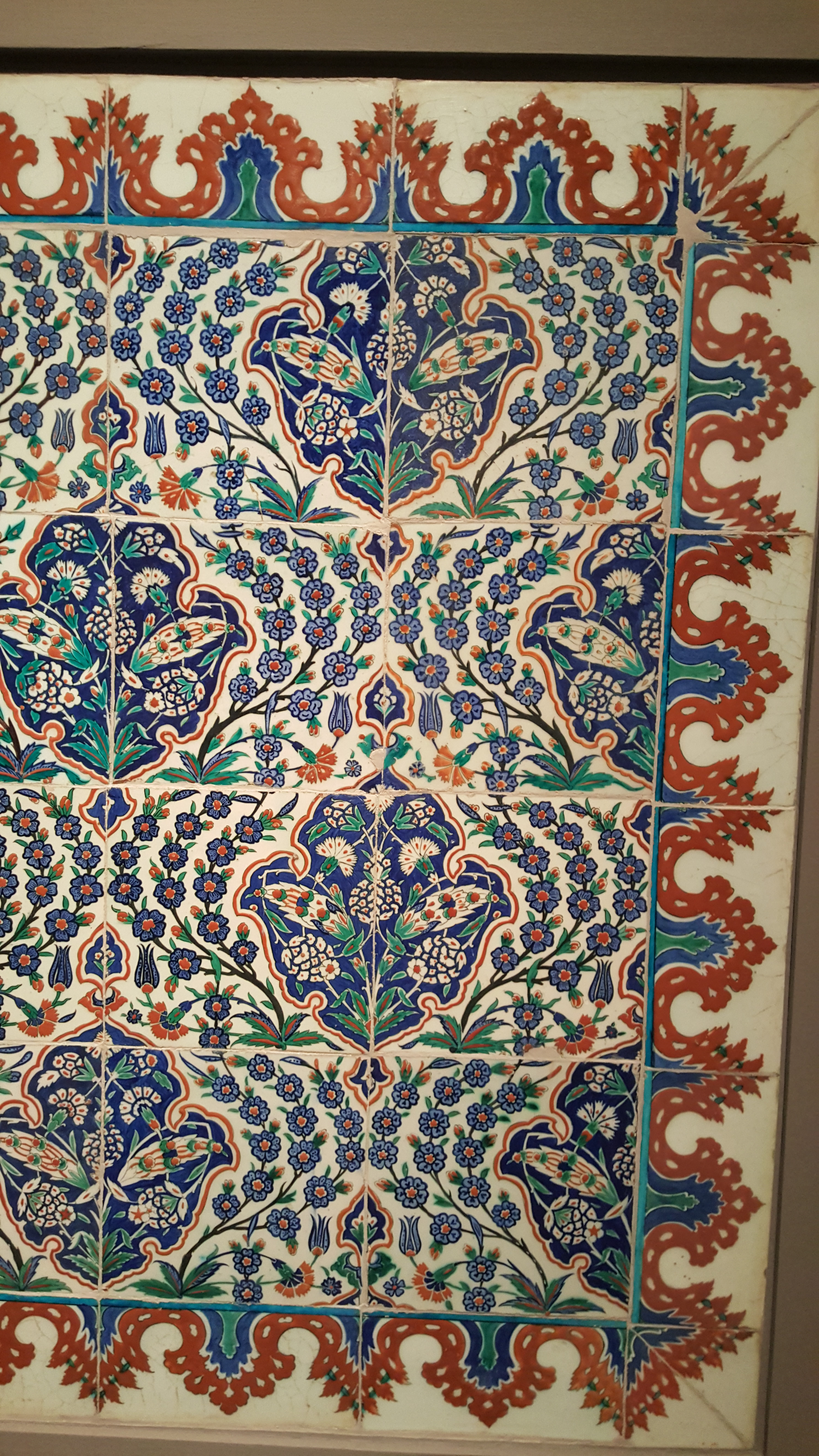 This photo is an Iznik tile dating from the second half of the 16th century from Iznik, Turkey.